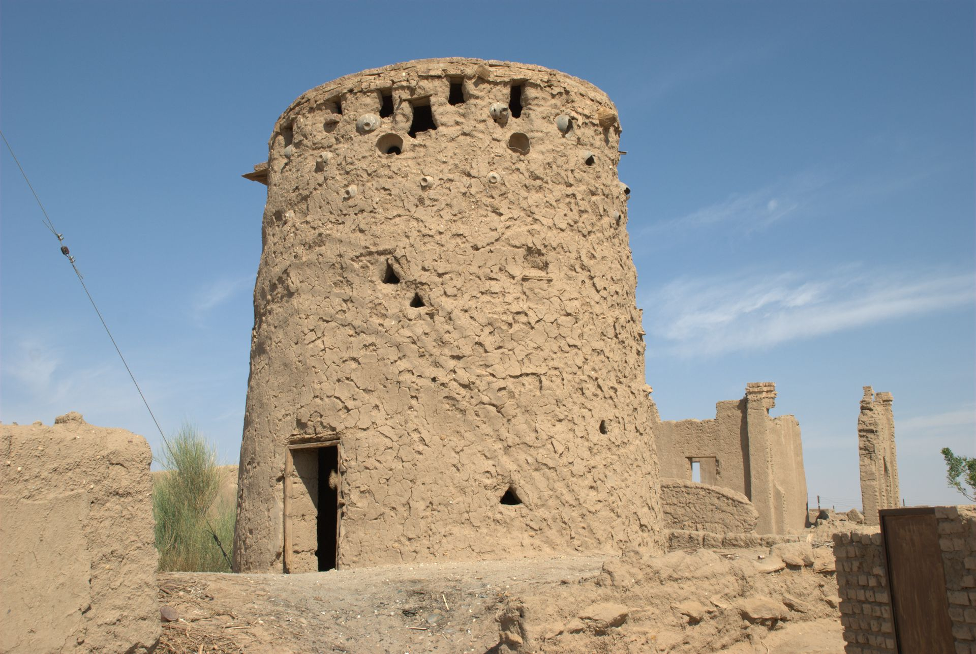 Dovecote near El Kurru, south of Karima, Sudan